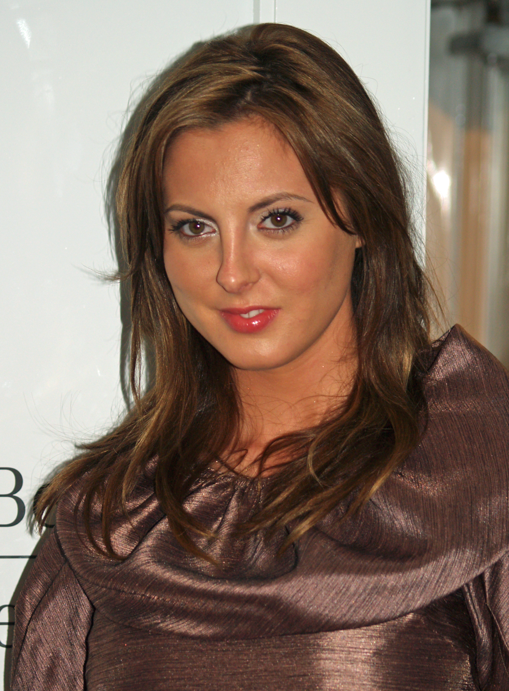 Eva Amurri at Mercedes-Benz Fashion Week.